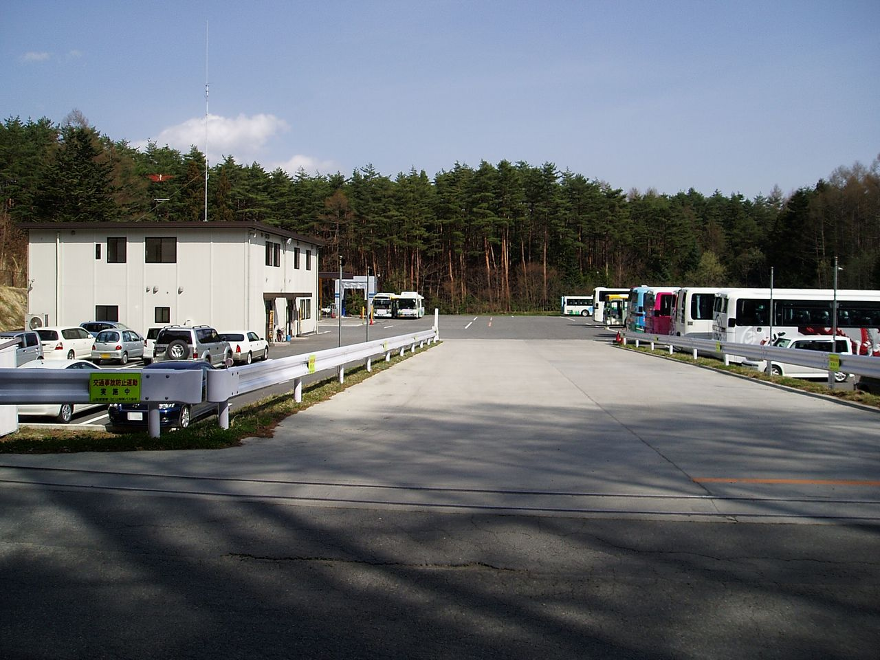 Fujikyu Kawaguchiko Branch